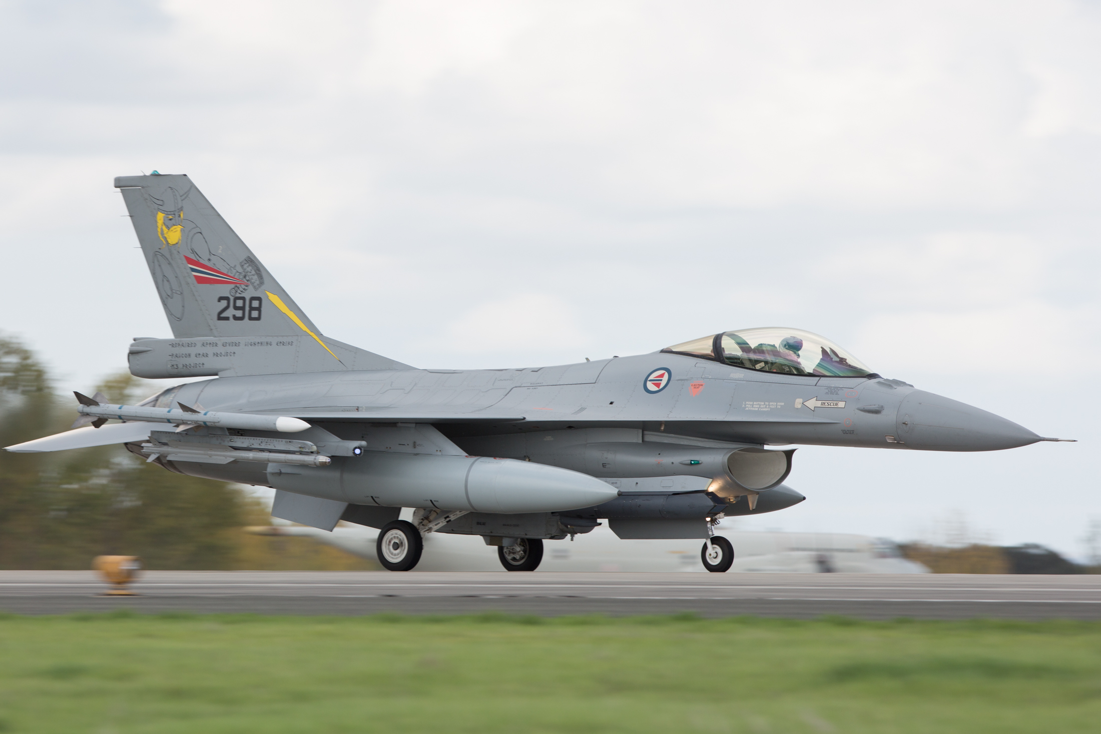 Take-off at Beja Air Base, Portugal. Another mission for Exercise Trident Juncture 2015. A Royal Norwegian Air Force F-16. Photo: Christian Timmig, NMIC TRJE15, Beja